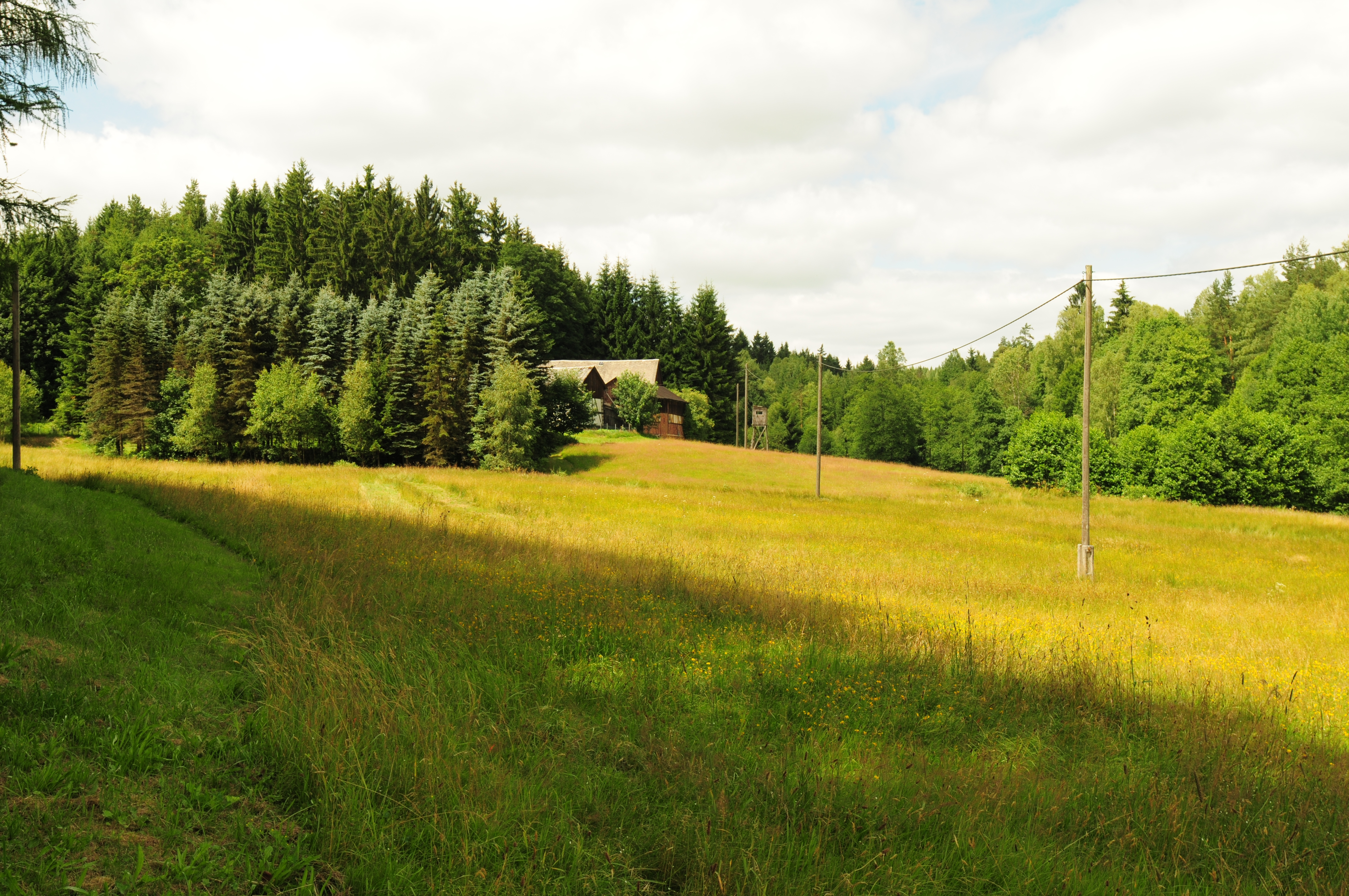 Bad Brambach, township Rohrbach, small farm in the dispersed settlement Hennebach (district Vogtlandkreis, Free State of Saxony, Germany)